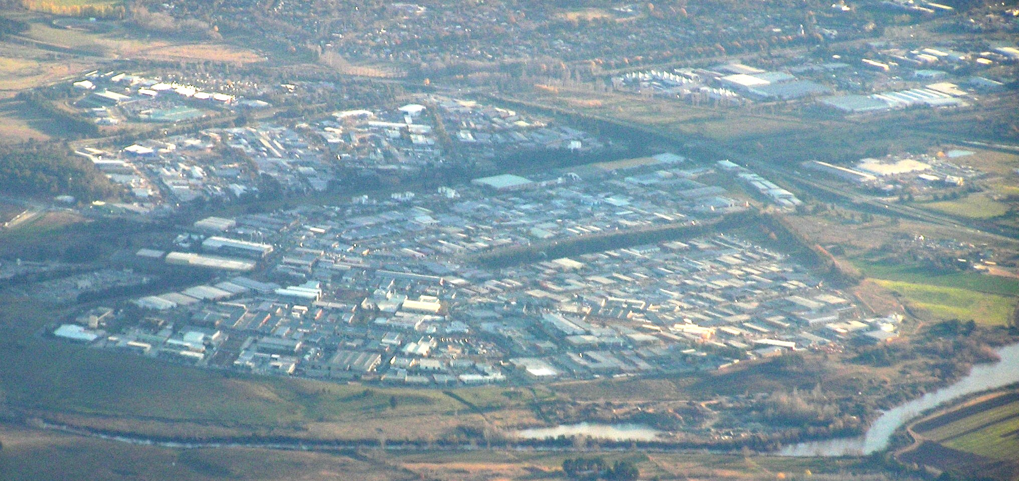 Ariel photo of Fyshwick taken fron the NE